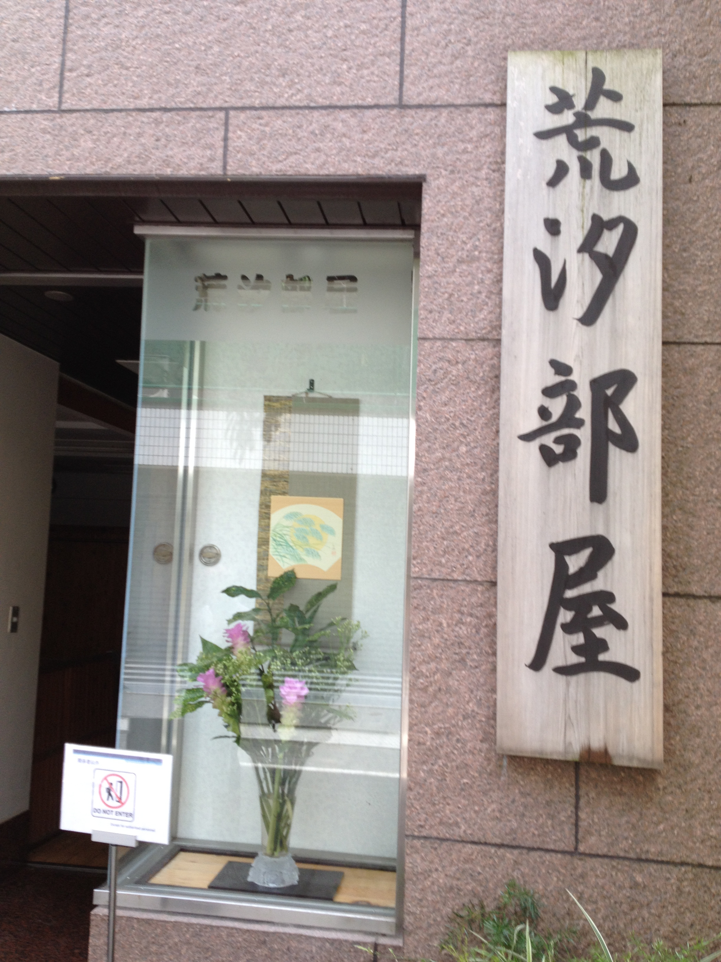 Front door of stable